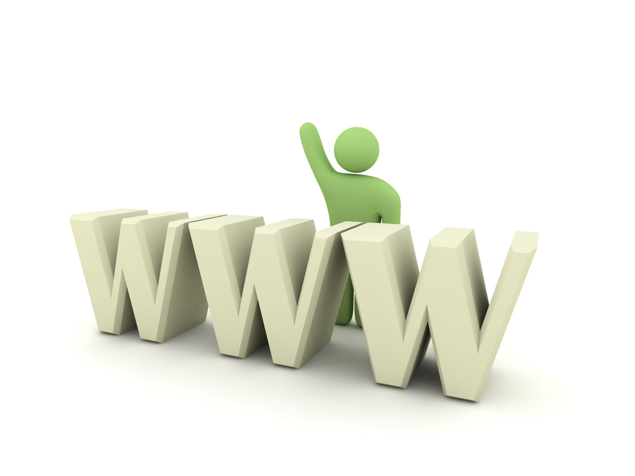 www,domain,internet,web,net